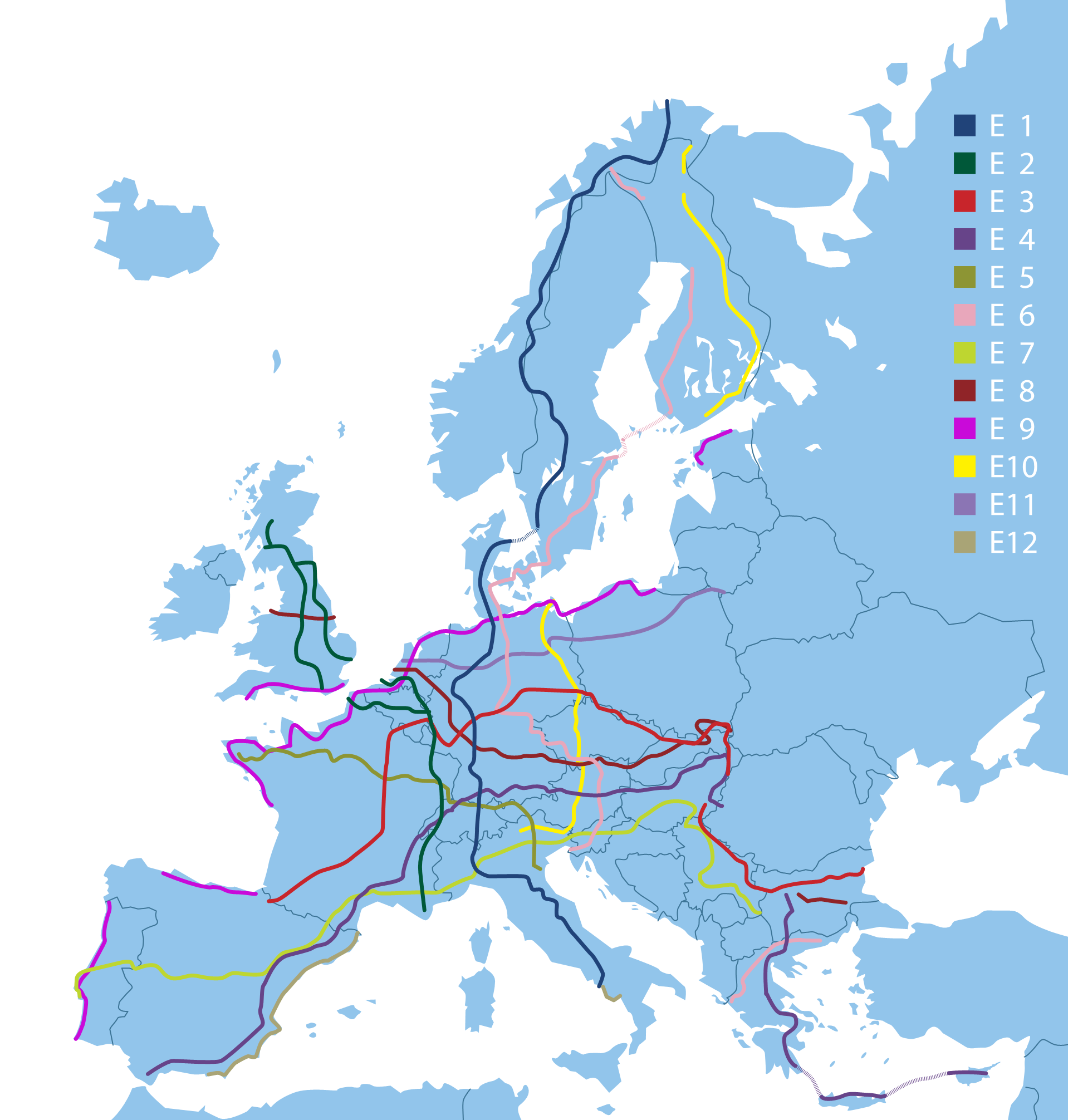 Map of European long-distance paths (E1 ... E12)